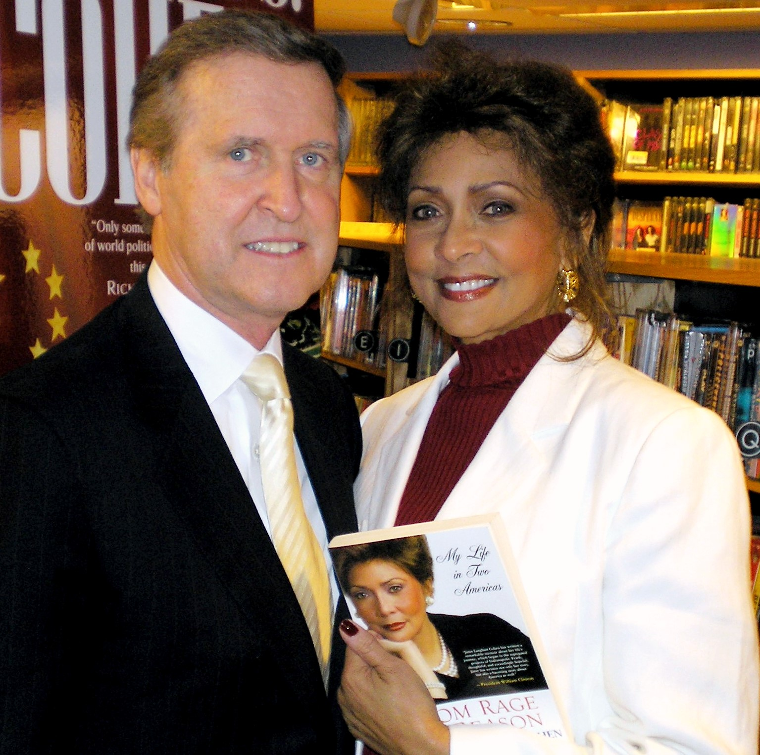 Former Defense Secretary William Cohen and his wife, author Janet Langhart, at Border's Bookstore off Wall Street in New York City.